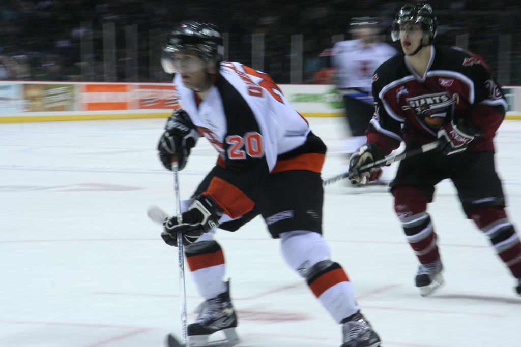 Travis Dunstall from Medicine Hat Tigers during a match against the Vancouver Giants